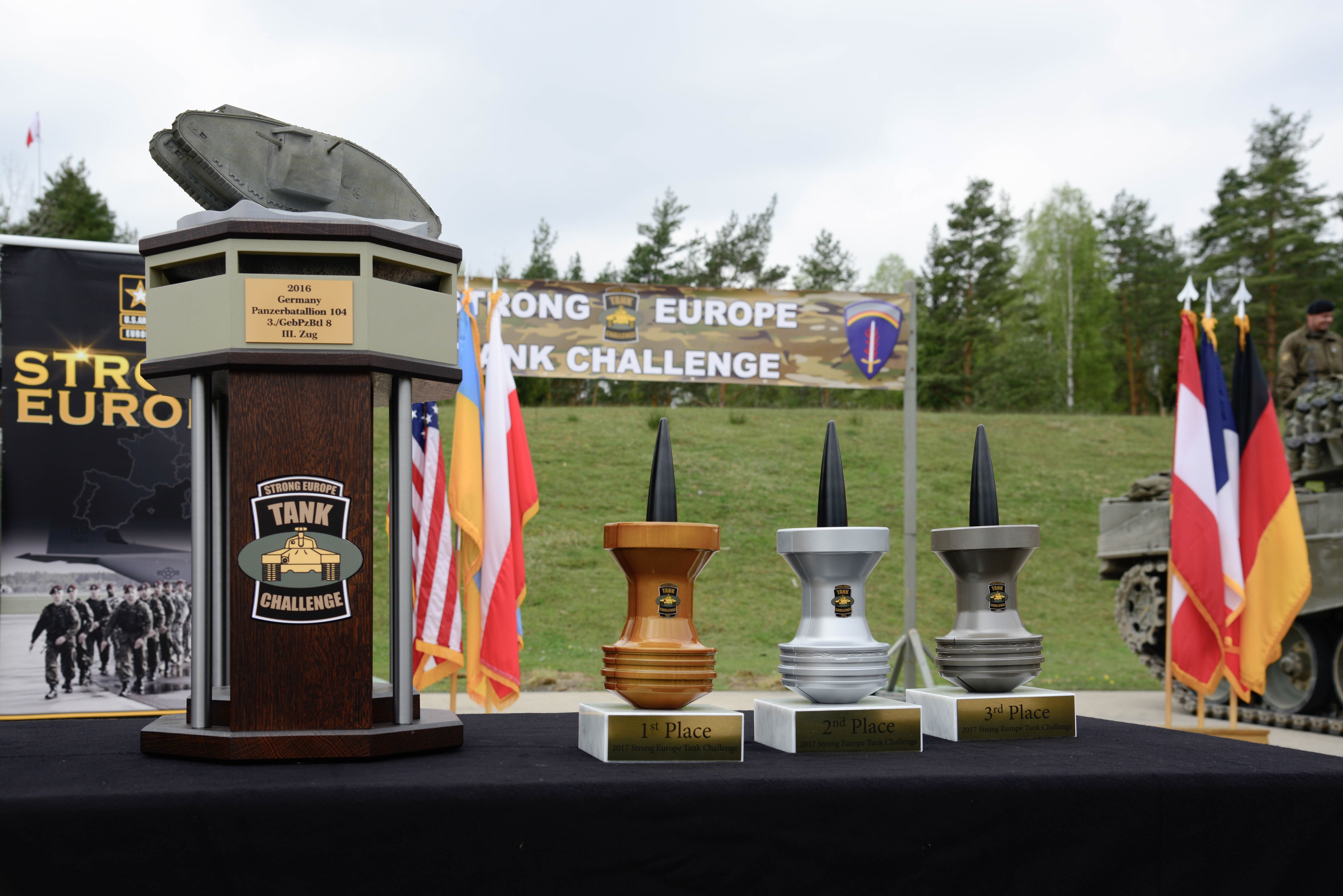 U.S. Army Europe's Strong Europe Tank Challenge 2017 kicked off in Grafenwoehr, Germany, May 7, with an opening ceremony and visit from the Acting Secretary of the U.S. Army, the Honorable Robert M. Speer. The Strong Europe Tank Challenge (SETC) is co-hosted by U.S. Army Europe and the German Army, May 7-12, 2017. The competition is designed to project a dynamic presence, foster military partnership, promote interoperability, and provides an environment for sharing tactics, techniques and procedures. Platoons from six NATO and partner nations are in the competition. (U.S. Army photo by Spc. Emily Houtershieldt)